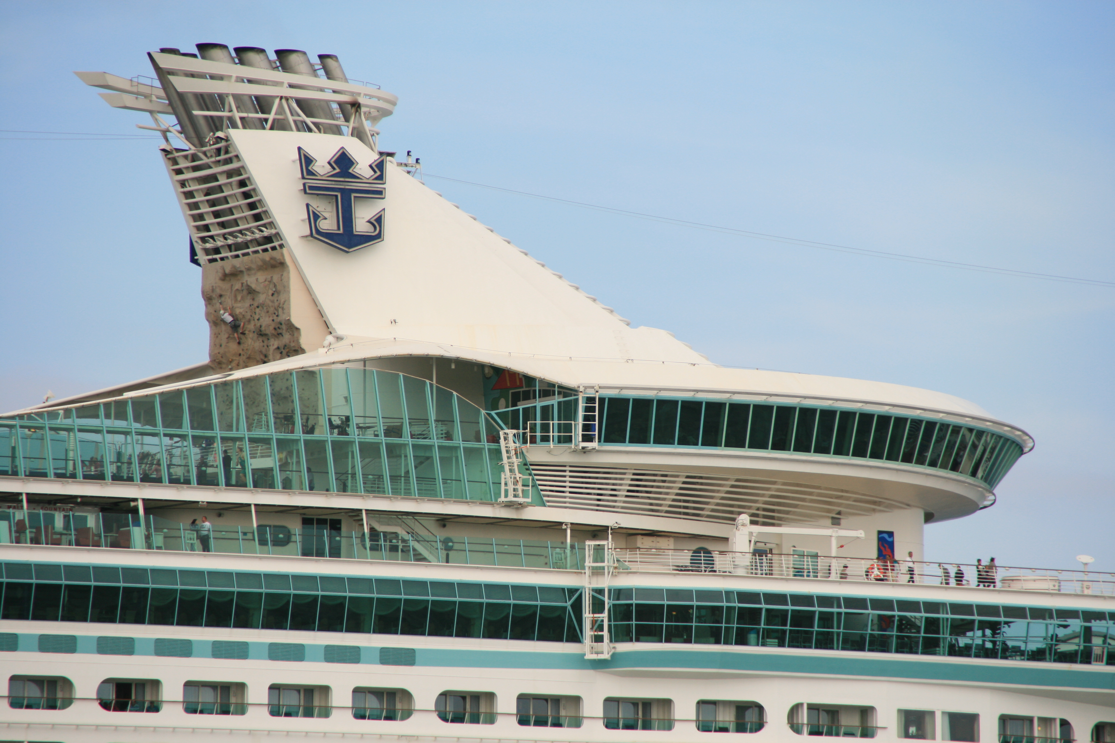 Rock climber on the climbing wall of the 137,276 gross tonnes Voyager-class cruise ship Adventure of the Seas outward bound from Southampton 5 May 2013.